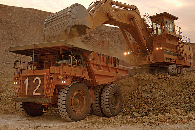 Work at the Sadiola Gold Mine in Mali